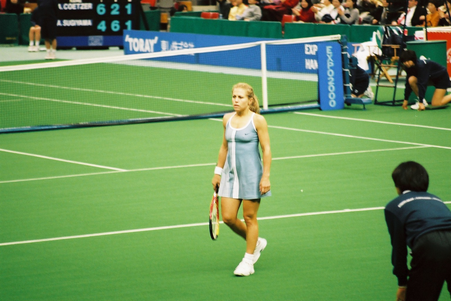 Amanda Coetzer takes part in an exhibition match with Ai Sugiyama at Nagoya Rainbow Hall in February 7, 2000.